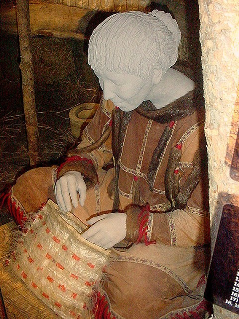 An imitation of a traditional Aleut woman's parka ("sax" in Aleut) made from puffin skins and sea otter fur from exposition of Anchorage Museum (Notice: Probably not the protected sea otter, probably Canadian Otter).